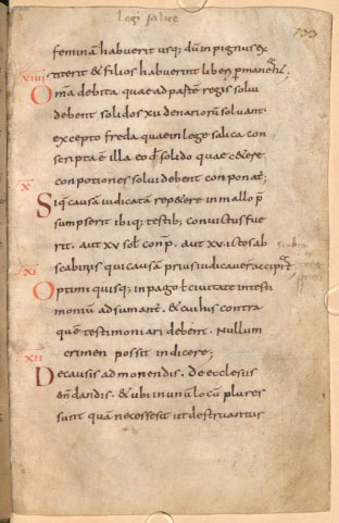 Lex Baiuvariorum, Capitulare missorum (803)